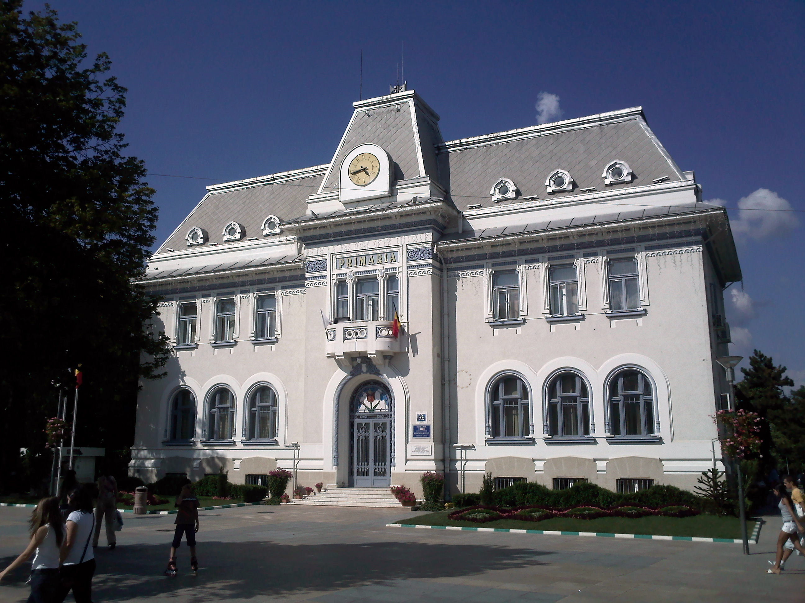 Piteşti City Hall